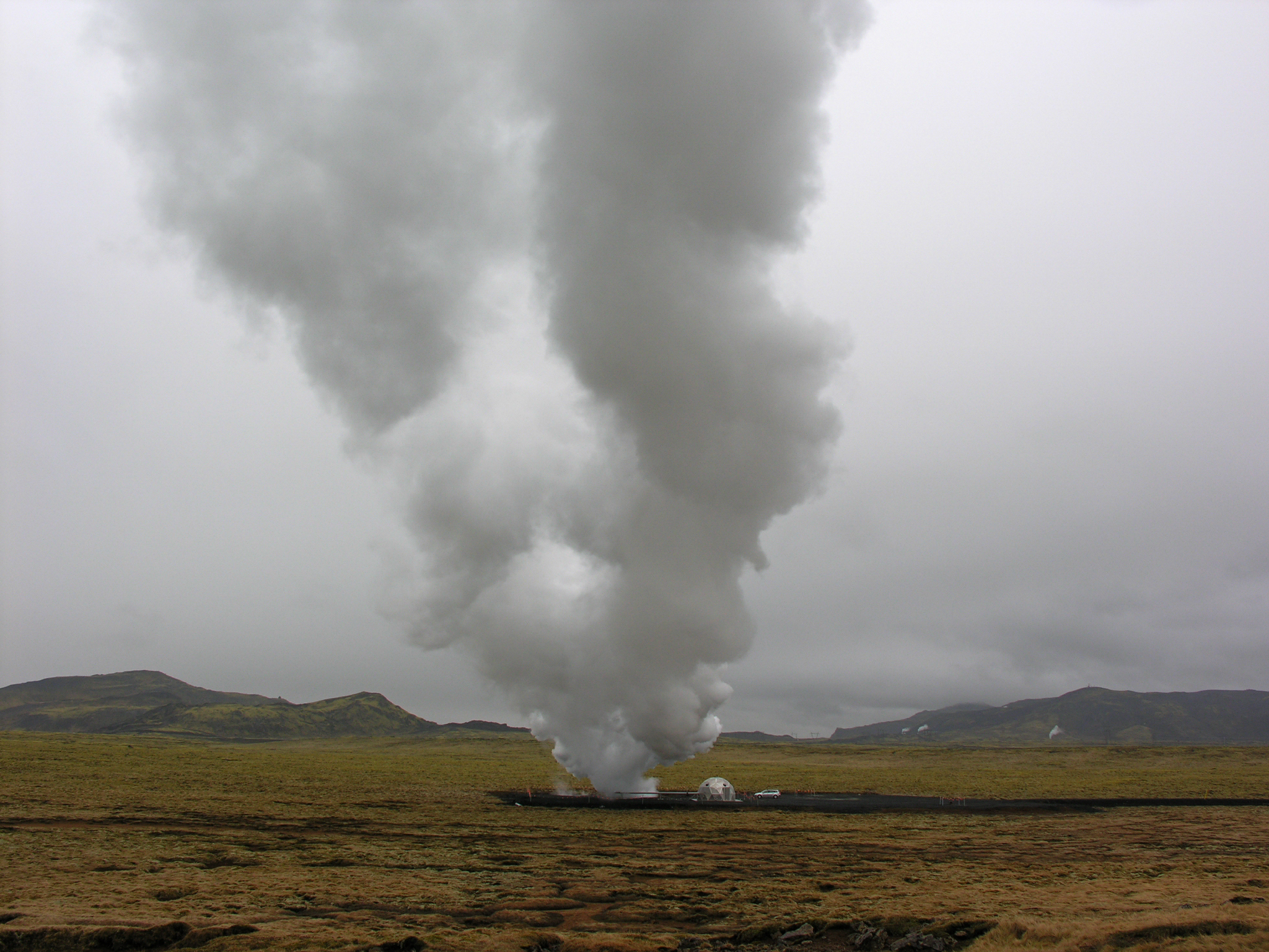 Iceland, one of the boreholes with surrounding area of the Hellisheiði Geothermal Plant. See the car next to the borehole for size comparison.